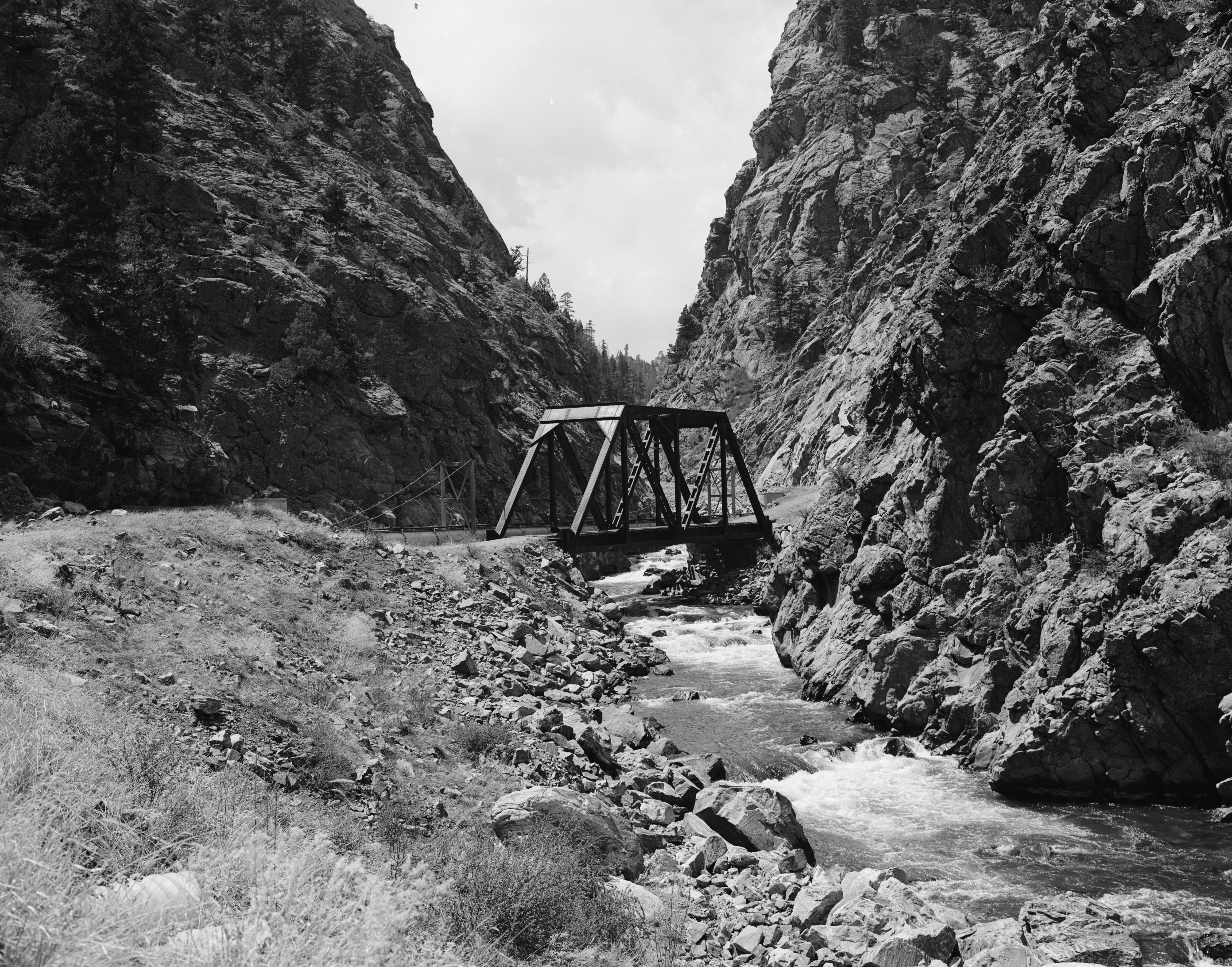 Deansbury Bridge, Spanning South Platte River, Waterton vicinity, near the Jefferson-Douglas County line, CO (note corrected location) Formerly used by Denver, South Park & Pacific RR General view looking west, ca. 1978 HAER COLO,30-WATER.V,3-1